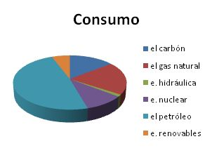 wykres